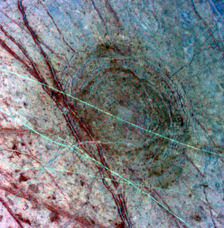 The impact structure Tyre on the Jovian moon of Europa, imaged in false colour by the Galileo probe.